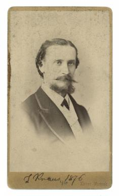 Portrait of the speleologist Franz Kraus taken in 1876.